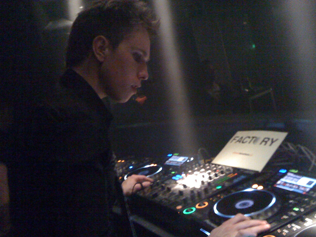 Nicky Romero @ Factory Cleanhoven